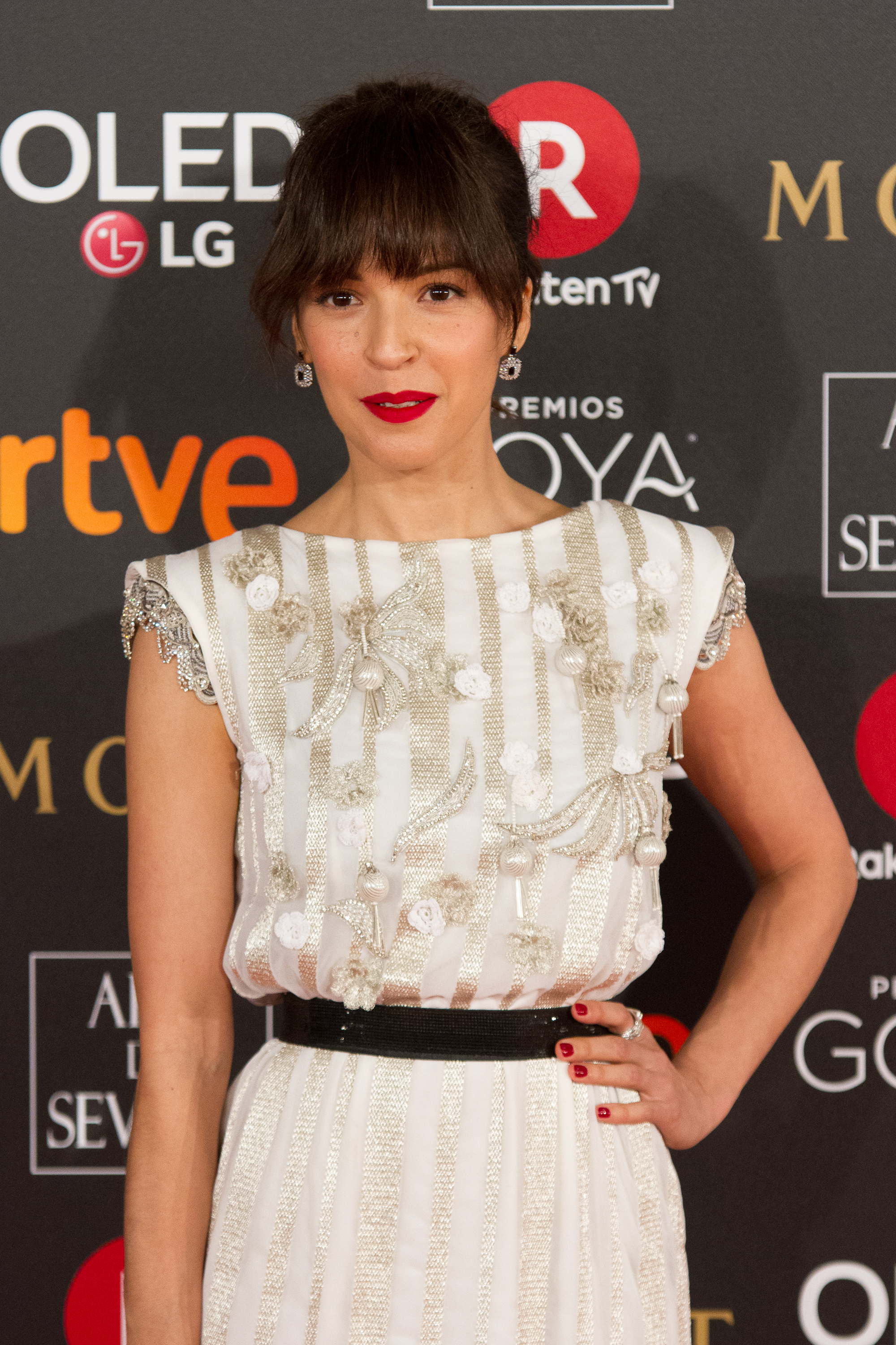 32nd Goya Awards, 2018.